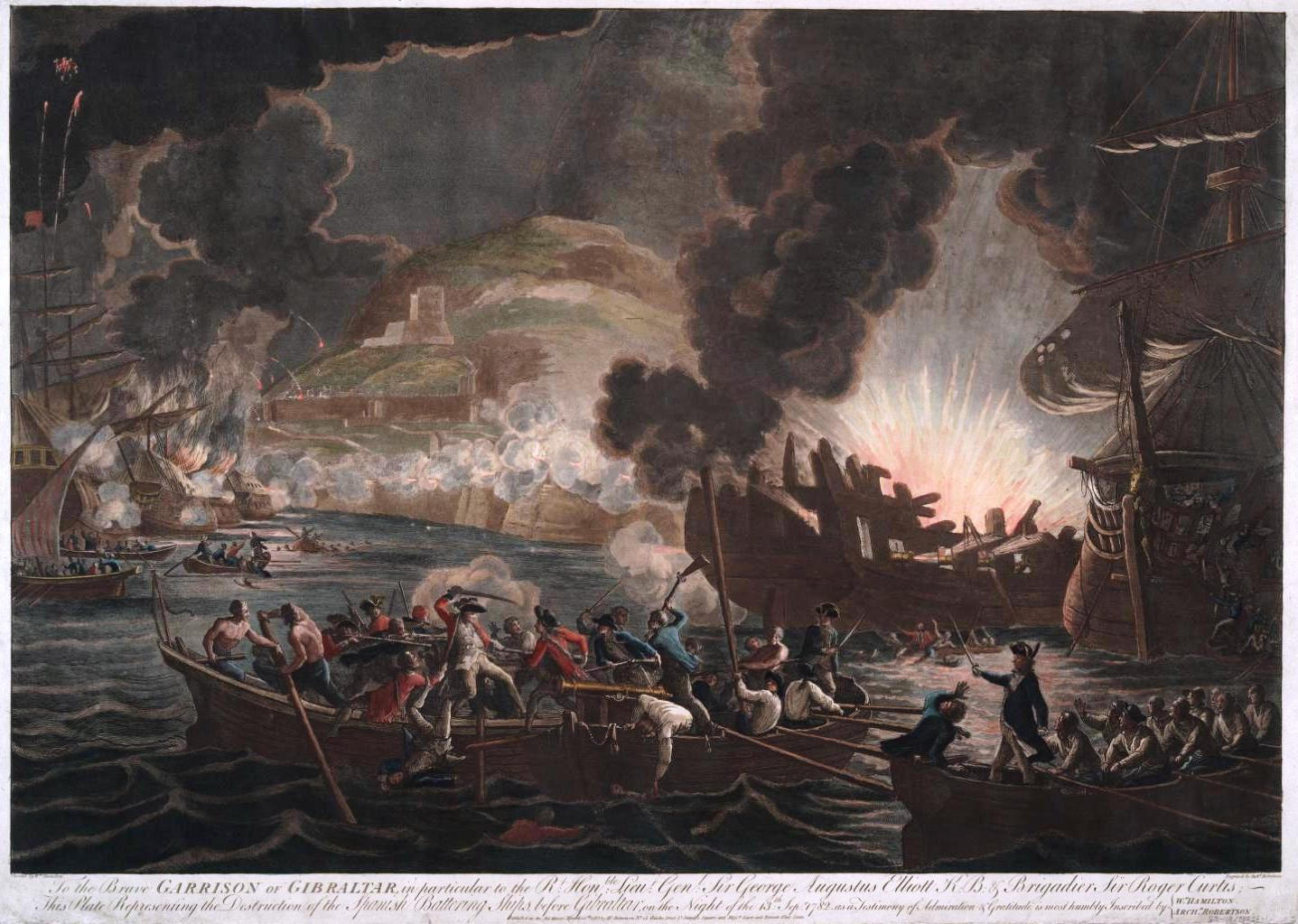 Combat at sea with boats in foreground near burning ships, artillery fire and fortress in background.